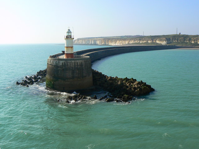 Newhaven Lighthouse A view of the lighthouse and breakwater, taken from the Newhaven to Dieppe ferry.